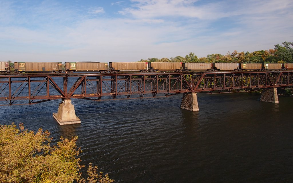 St. Cloud Rail Bridge over the Mississippi River, St Cloud, Minnesota, USA. Viewed from the south.